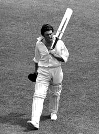 Image of Australian cricketer Ian Chappell. Courtesy of the National Archive of Australia. The NAA has given permission for the image to be used under the GDFL license. Confirmation of this permission has been sent to the OTRS system.